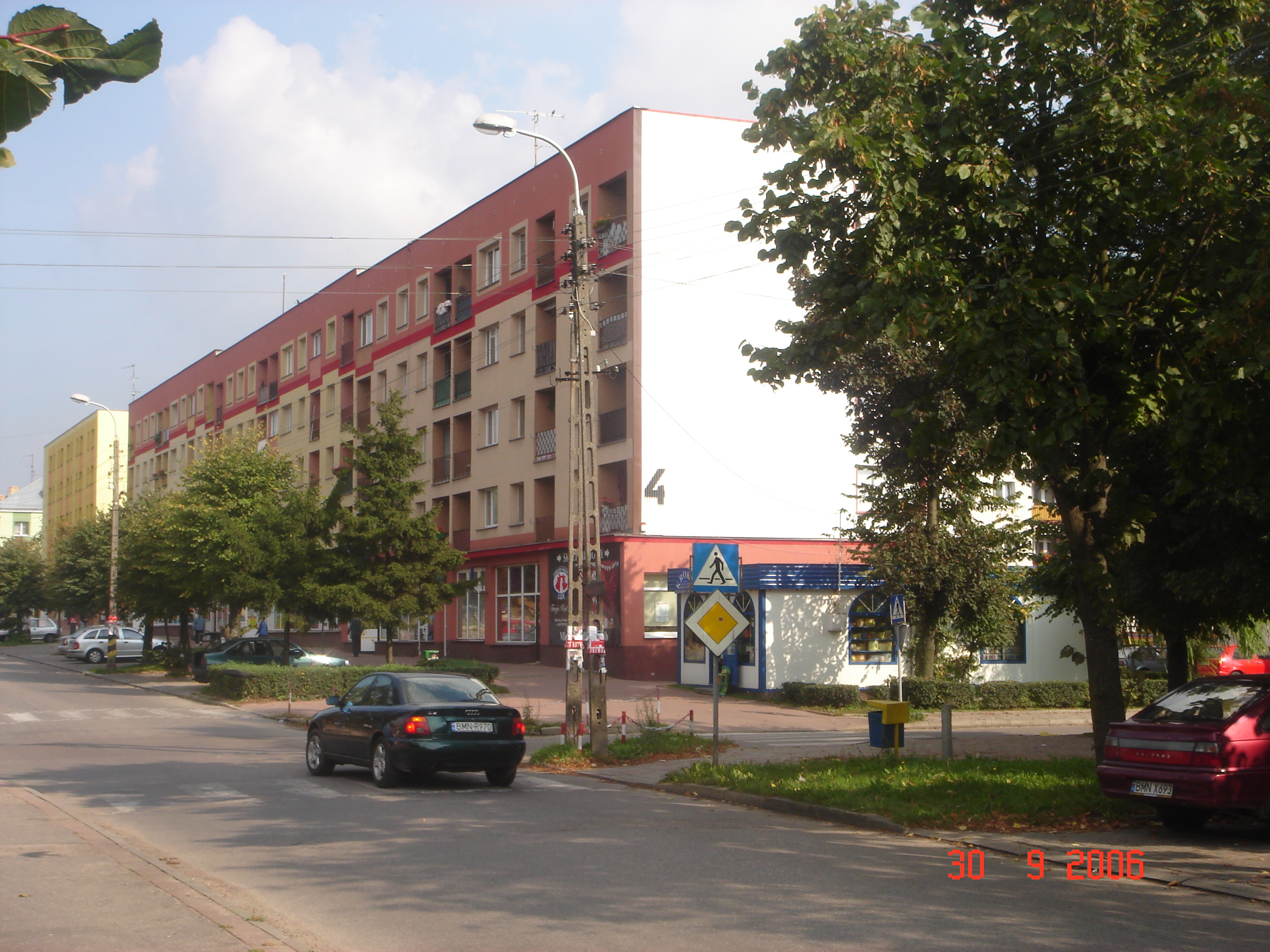 Niepodległości and Wyzwolenia Streets, crossing in Mońki (Poland)